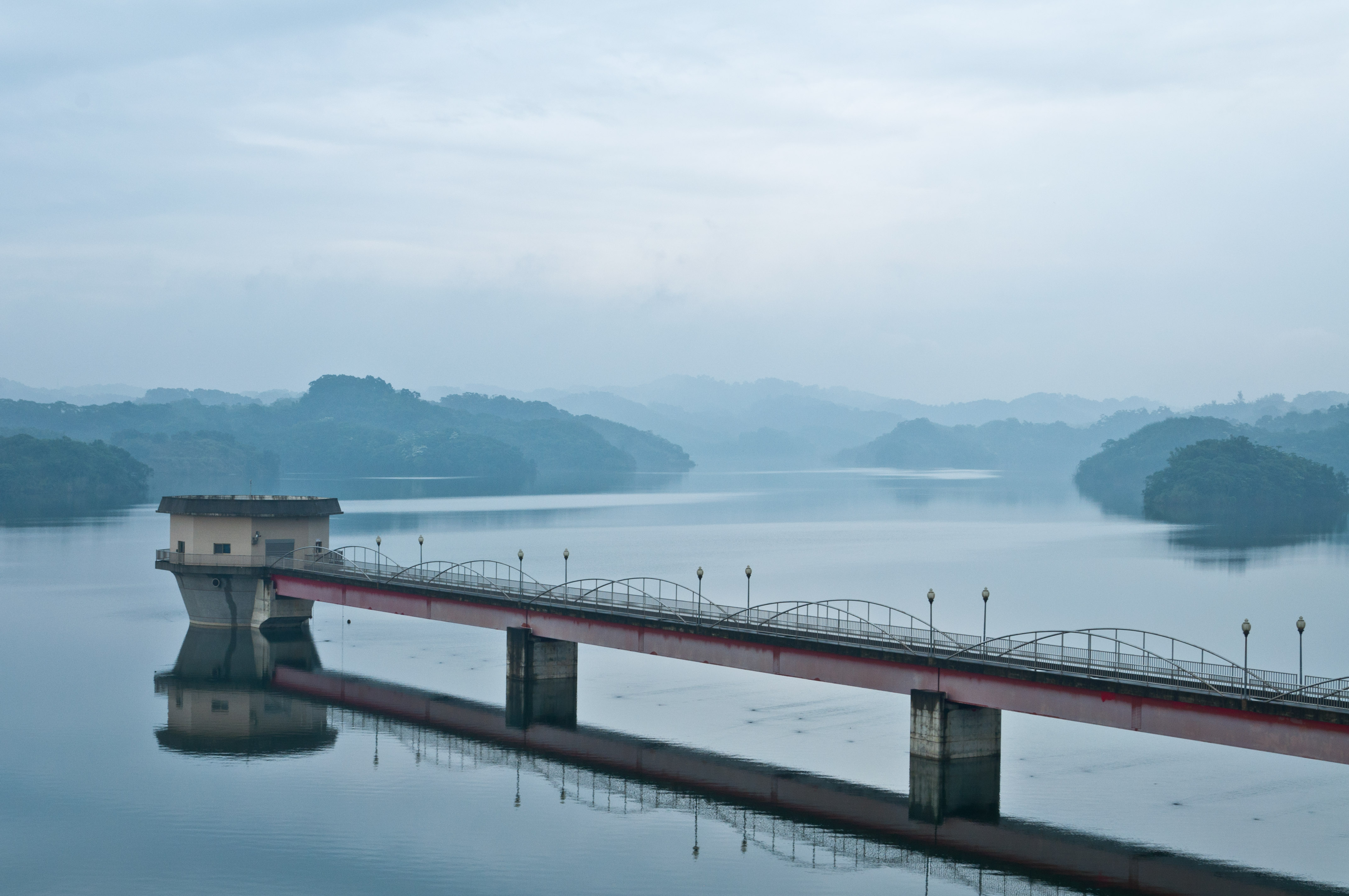 Taiwan Hsinchu Paoshan second reservoir.